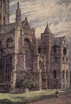 Canterbury Cathedral - watercolor by William Biscombe Gardner